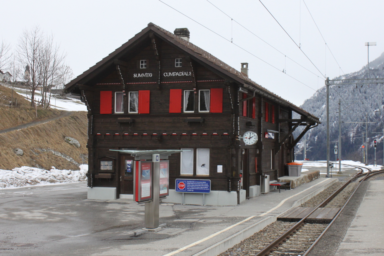 Sumvitg-Cumpadials train station.